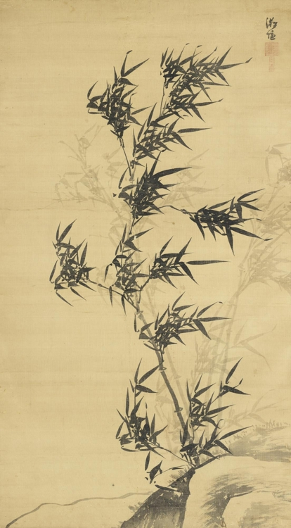 Ink painting of bamboo in wind by mid-Joseon-era painter Yi Jeong, now included in South Korea's highest-denomination bill (50,000 SKW). In Kansong Art Museum.